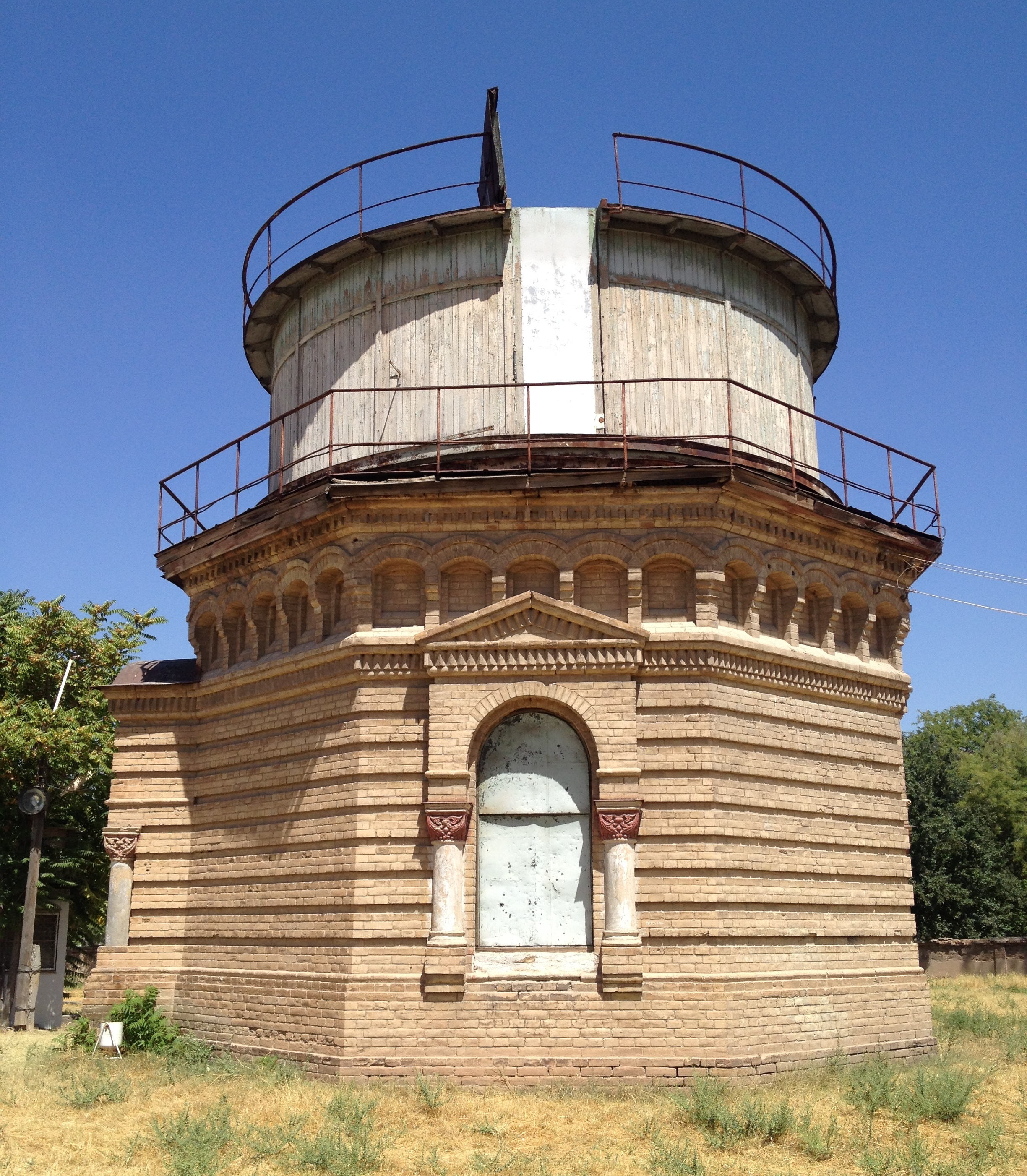 Building of telescope-refractor in Ulugh Beg Astronomical Institute